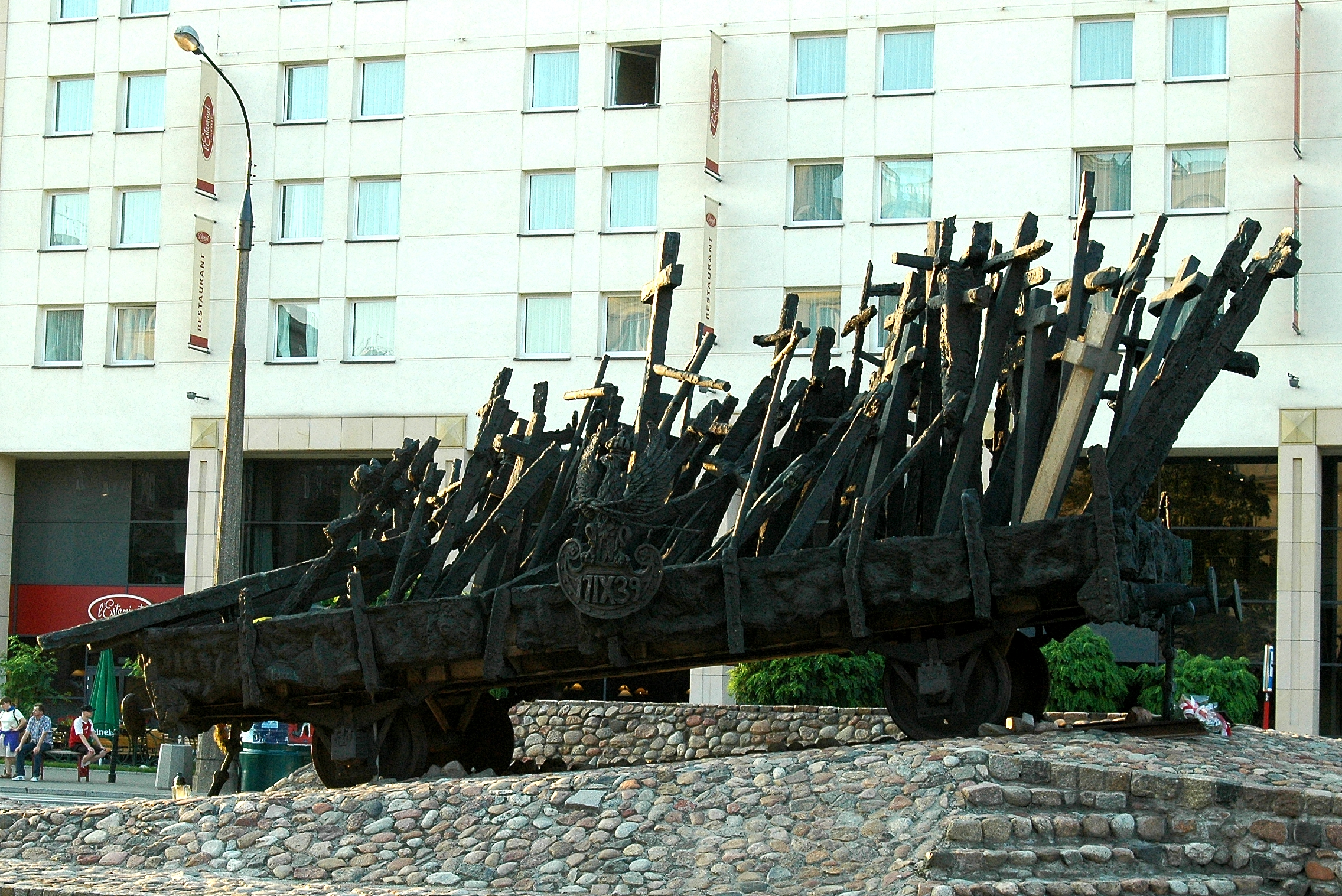 Monument To Those Who Fell or Were Murdered in the East (Poległym i Pomordowanym na Wschodzie), commemorating the victims of the Soviet occupation of Poland